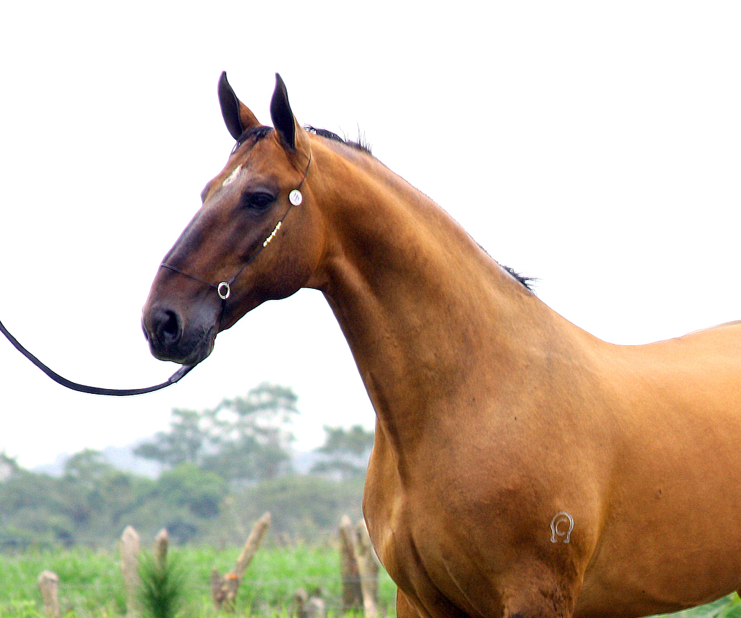 breed standard stallion, adult head